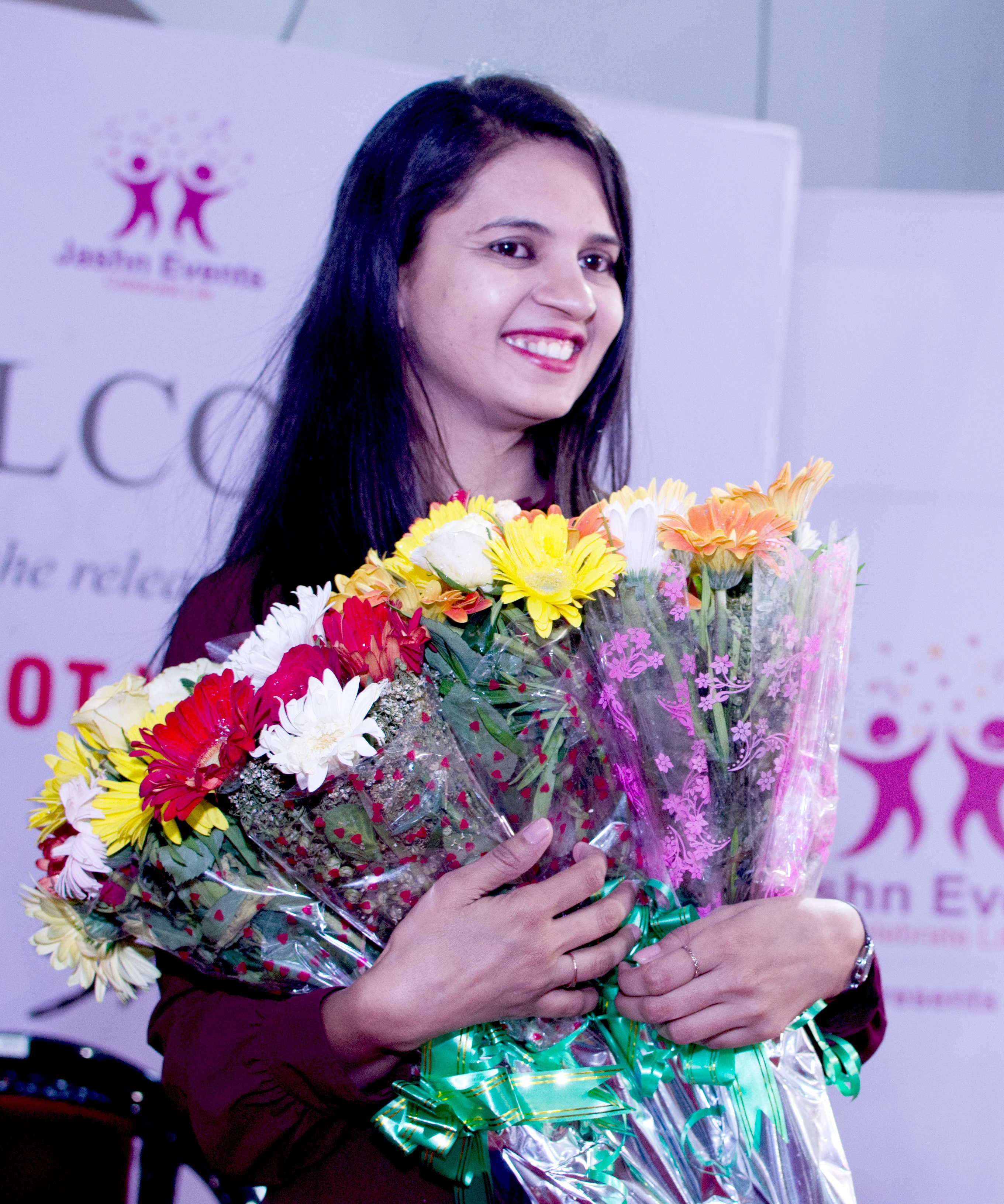 Depicted person: Savi Sharma